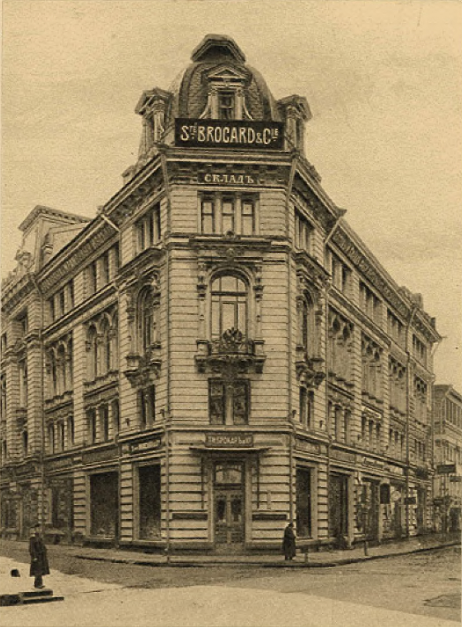 Nikolskaya Street in Moscow. The end of street. The Board and wholesale of perfume production association "Broсard and Co".